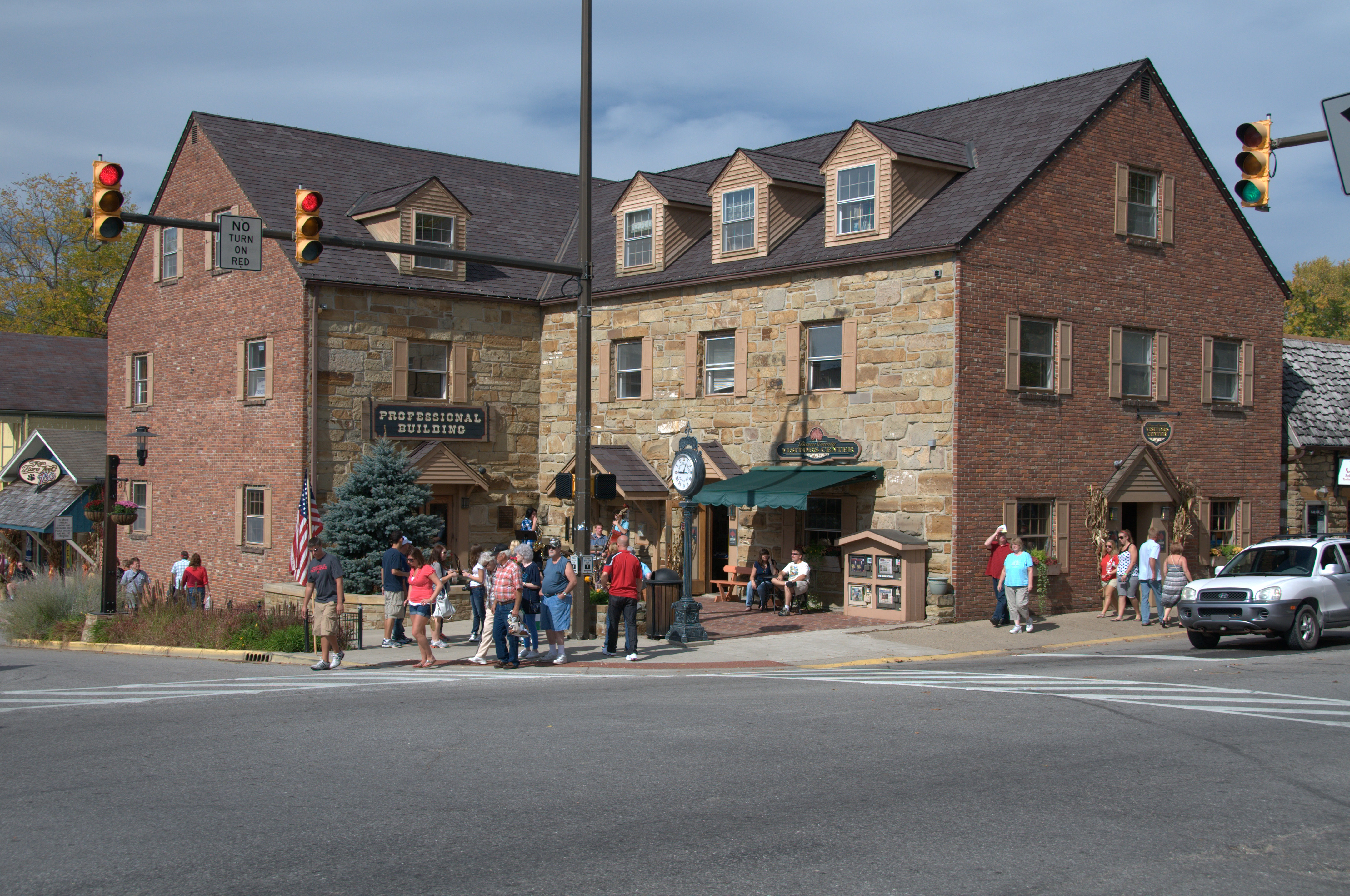 Nashville Indiana - Corner of Main street